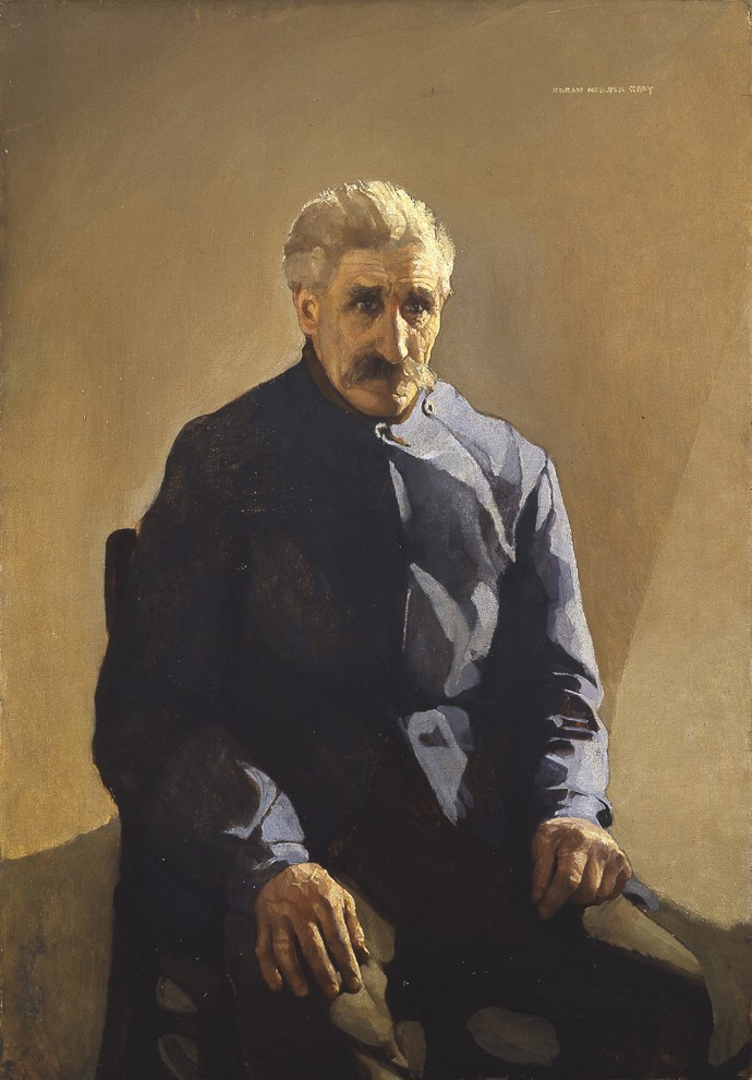 The Belgian Refugee, oil on canvas painting by Norah Neilson Gray